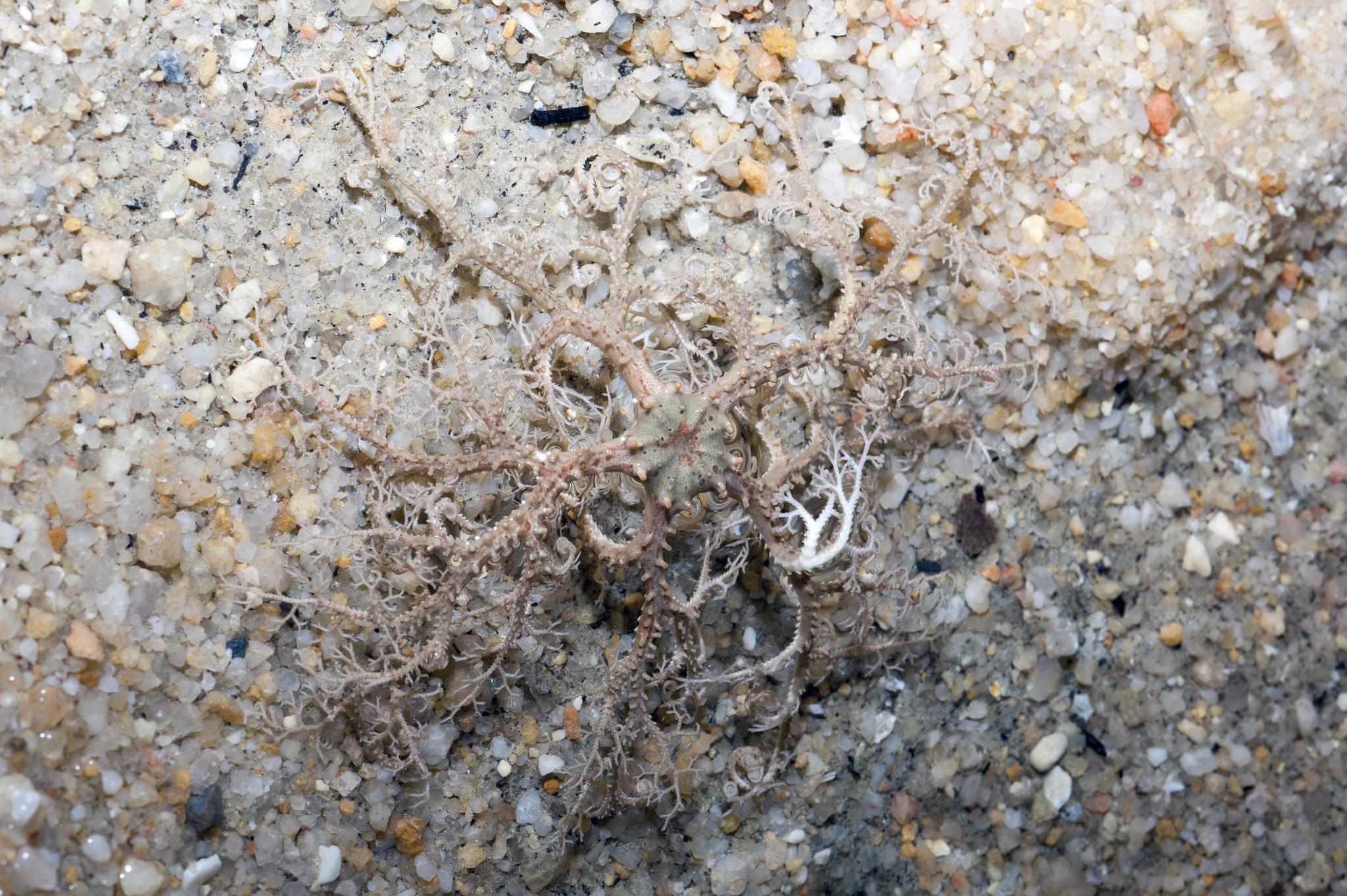 Basket star (ophiur Euryale aspera.